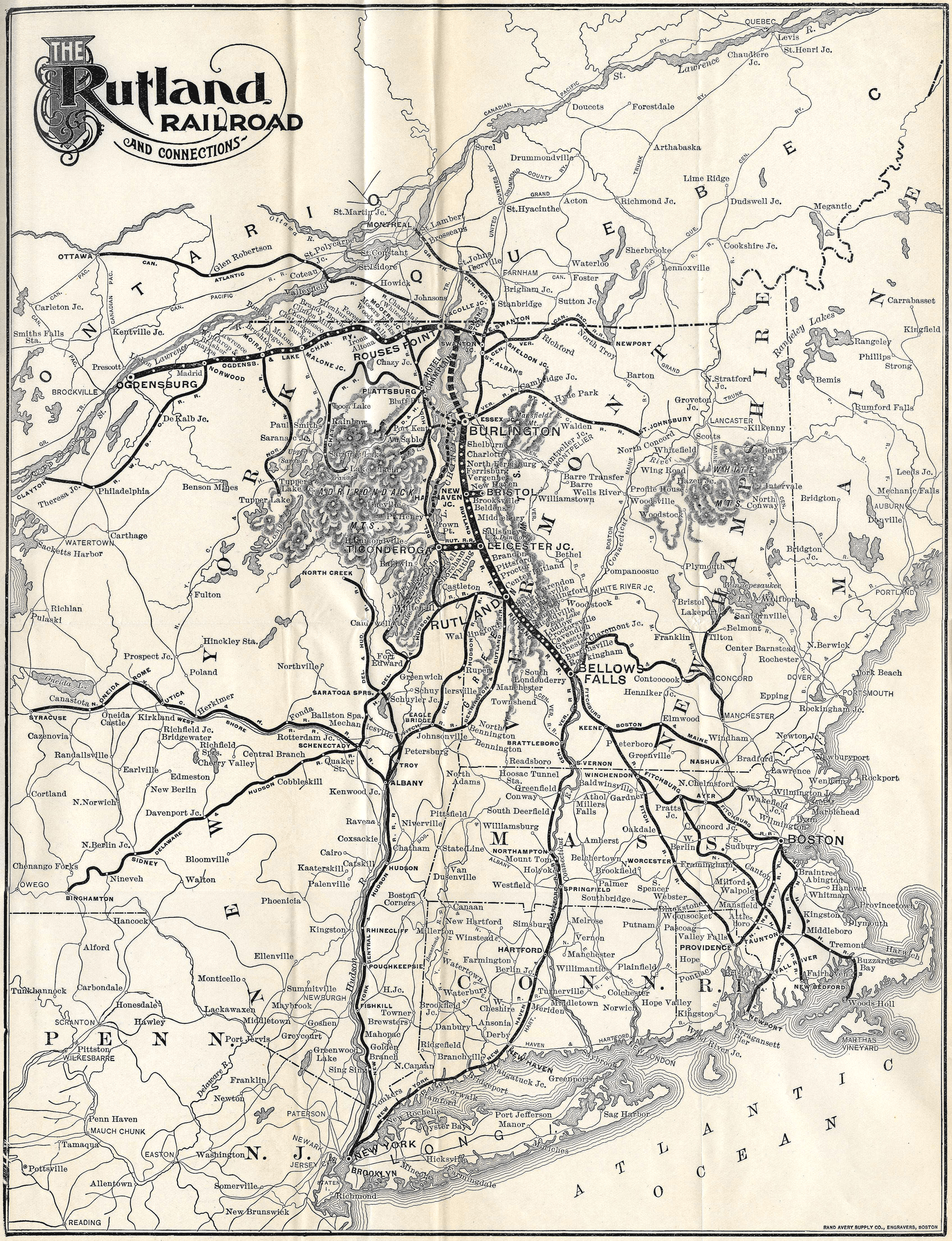 Map of "Rutland Railroad and Connections".